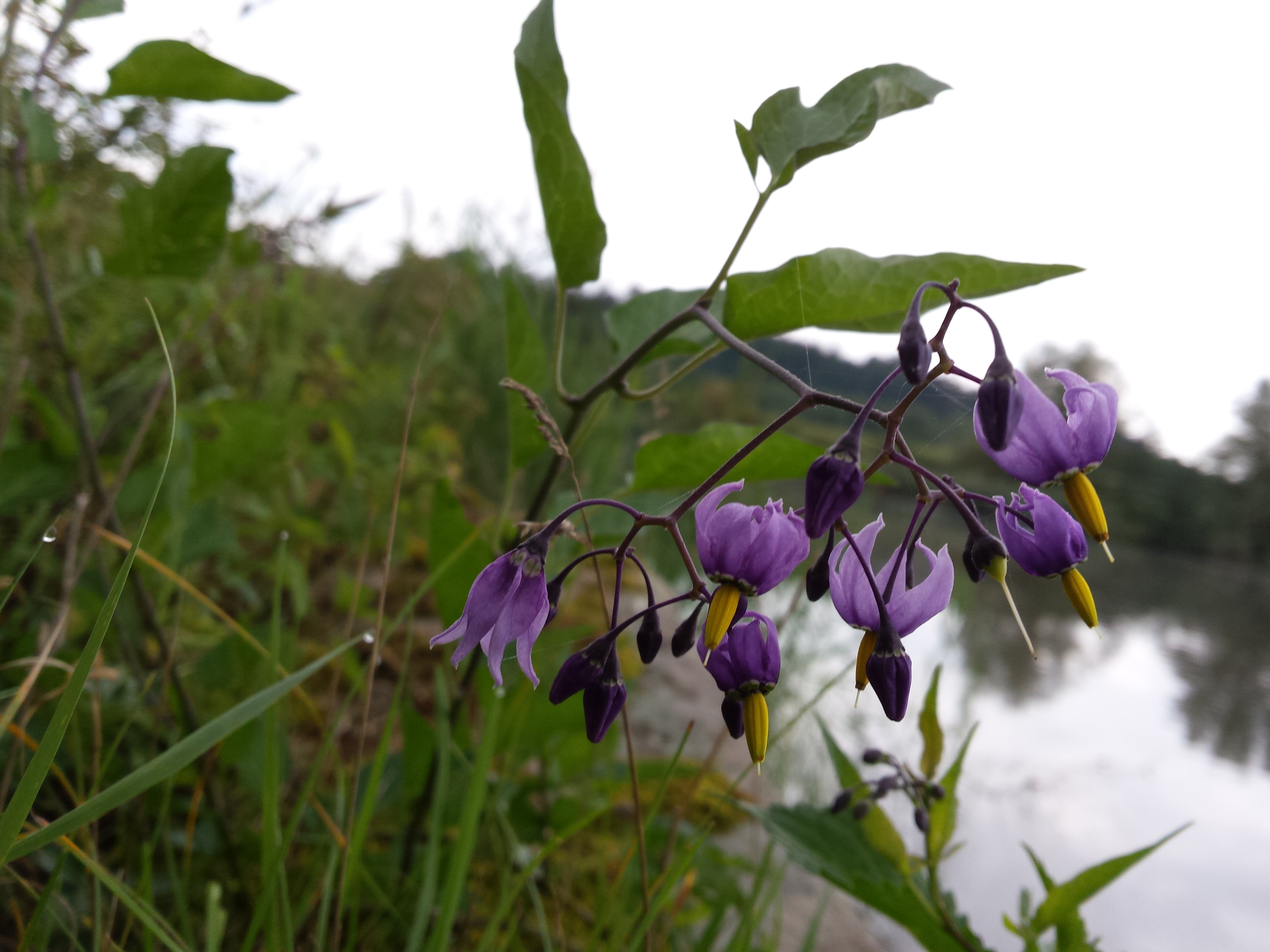 Bittersweet